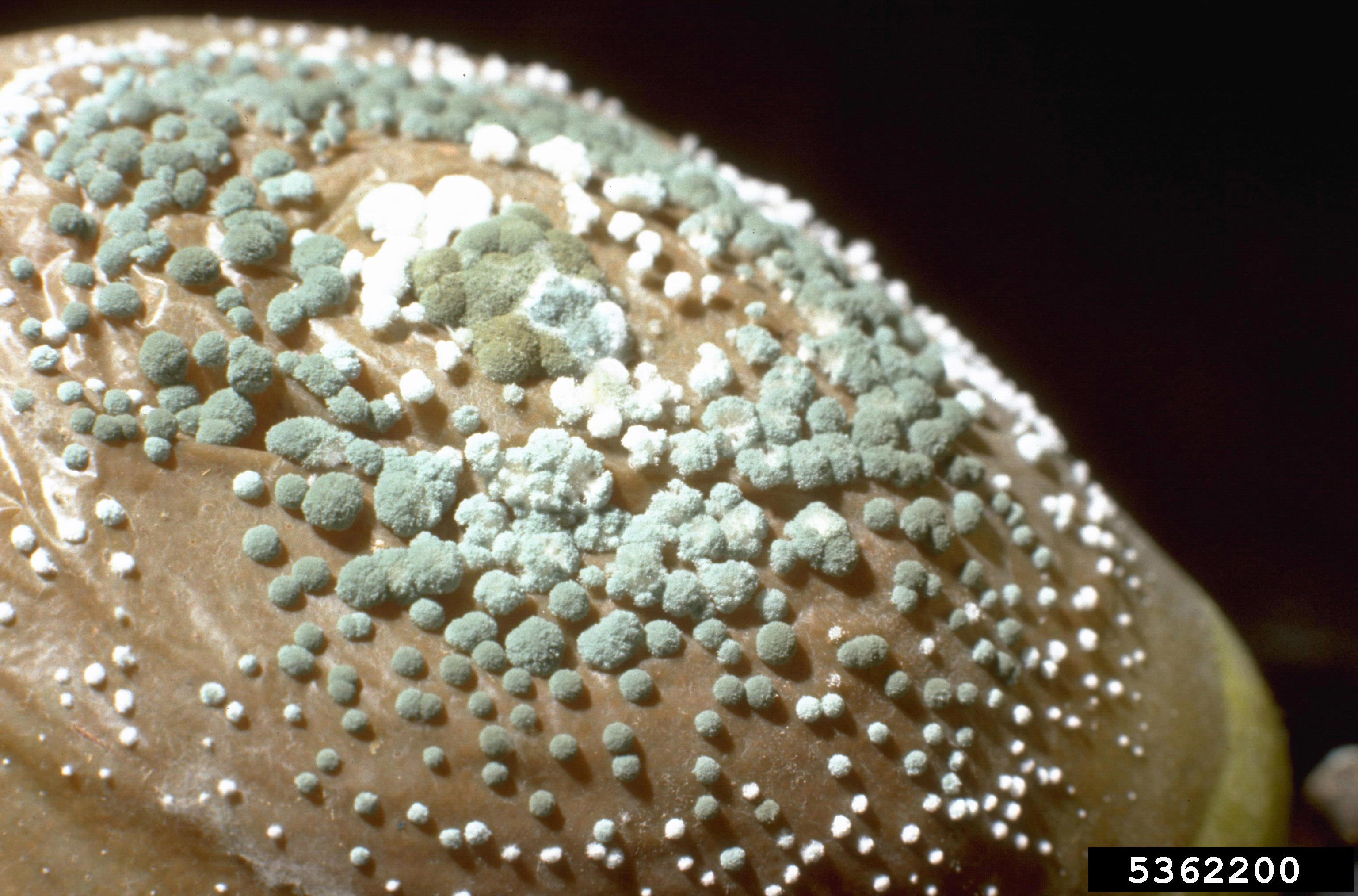 Close-up view of blue mold spores on a rotting pear